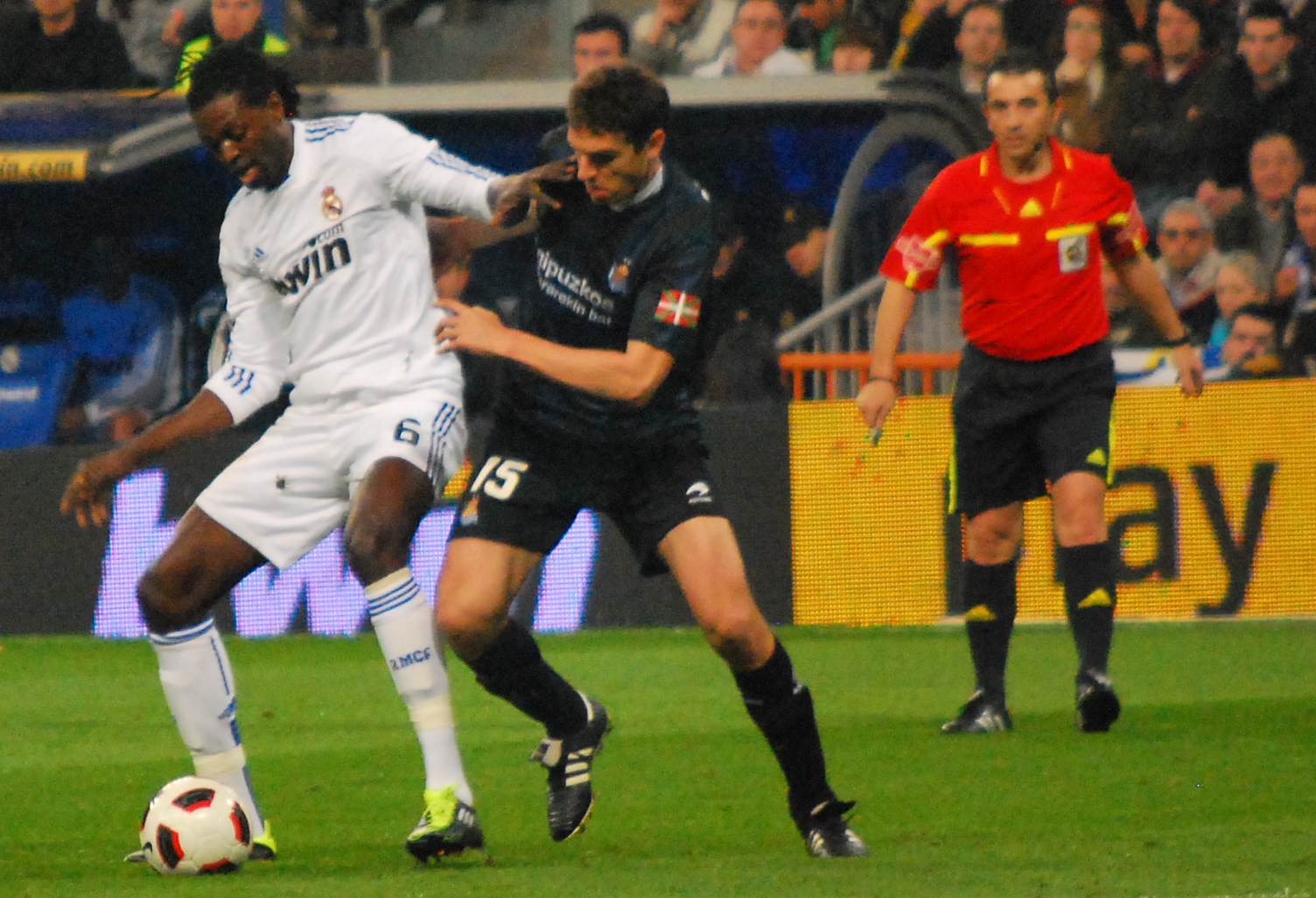 Real Madrid 4 - Real Sociedad 1, Match La Liga, 6 february 2011